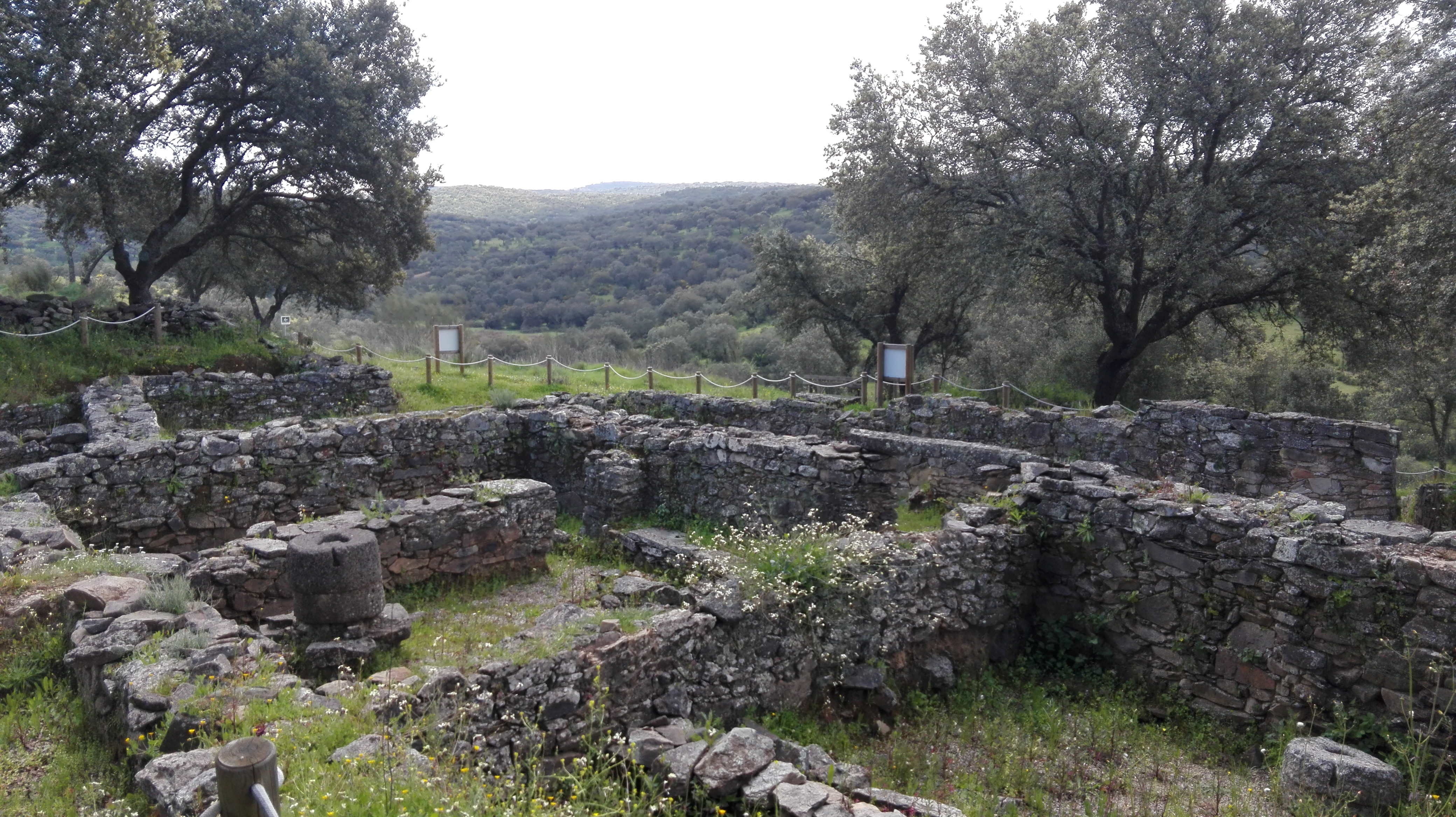 Viviendas del Yacimiento Celta de Capote